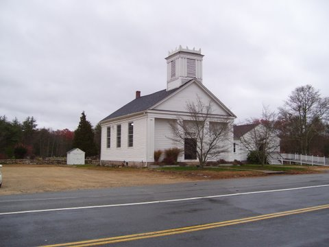 My 2009 photo of the Baptist Church in Exeter Rhode Island.